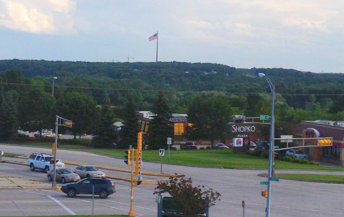 An image of the flag and flagpole on the campus of Acuity Insurance in Sheboygan, Wisconsin, which stands 400 ft tall and as of July 2014, was the tallest flagpole containing the largest flag in the United States. This picture was taken from Taylor Park in Sheboygan, 1.7 miles north-northeast of the Acuity campus to demonstrate the flagpole's height over the surrounding area.